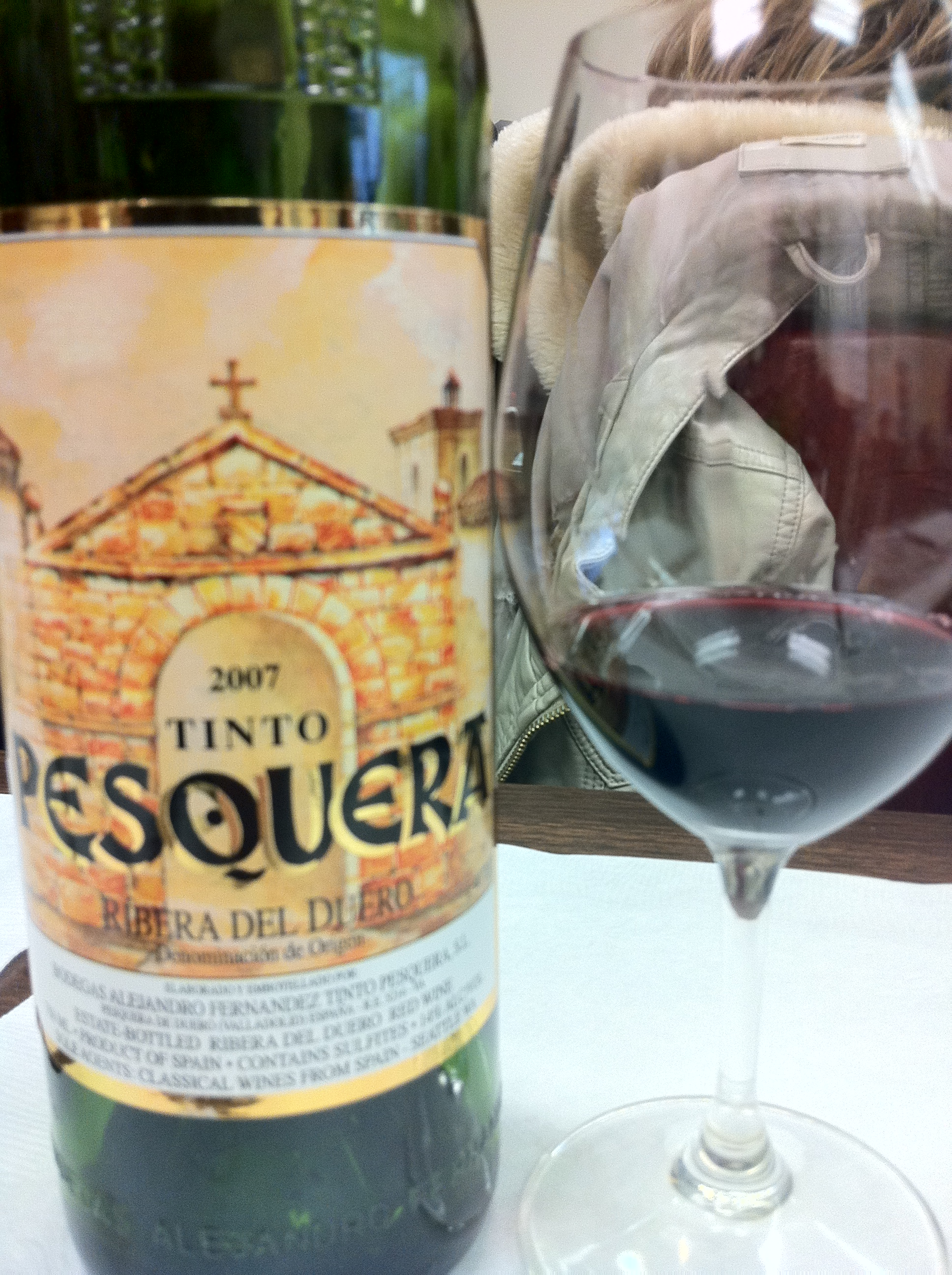 {| cellspacing="8" cellpadding="0" style="width:100%; clear:both; text-align:center; margin:0.5em auto; background-color:#f9f9f9; border:2px solid #e0e0e0; direction: ltr;" class="layouttemplate licensetpl" | style="width:90px;" rowspan="3" | | | style="width:90px;" rowspan="3" | |- style="text-align:center;" | |- style="text-align:left;"